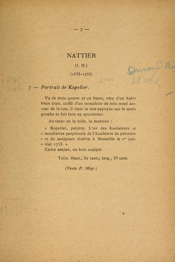 1920 portrait de kapeller